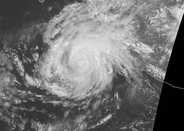 Tropical Storm Kiko of 2007, seen in visible light from GOES-West satellite at 2000Z Oct 20.